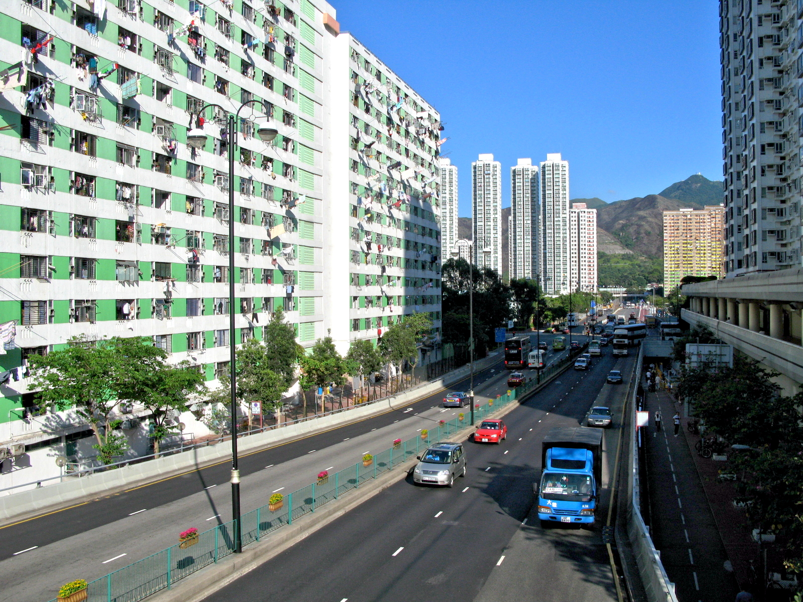 Sha Tin Rural Committee Road 沙田鄉事會路